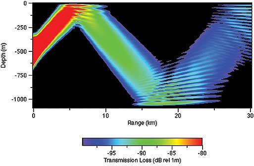 Acoustic simulation in a simple ocean environment, depicting several of the features required in a Naval operational model: beam source, wind-driven sea surface losses on the first reflection, and loss-vs-angle ocean bottom treatment. Also present but less evident in the simulation are seawater volume attenuation and spherical Earth corrections. Source frequency, angle, and beamwidth are 250 Hz, 5 degrees, and 1.5 degree respectively; water is isovelocity at 1500 m/s and depth is 1000 meters; windspeed is 20 m/s; ocean bottom parameters approximate soft rock.